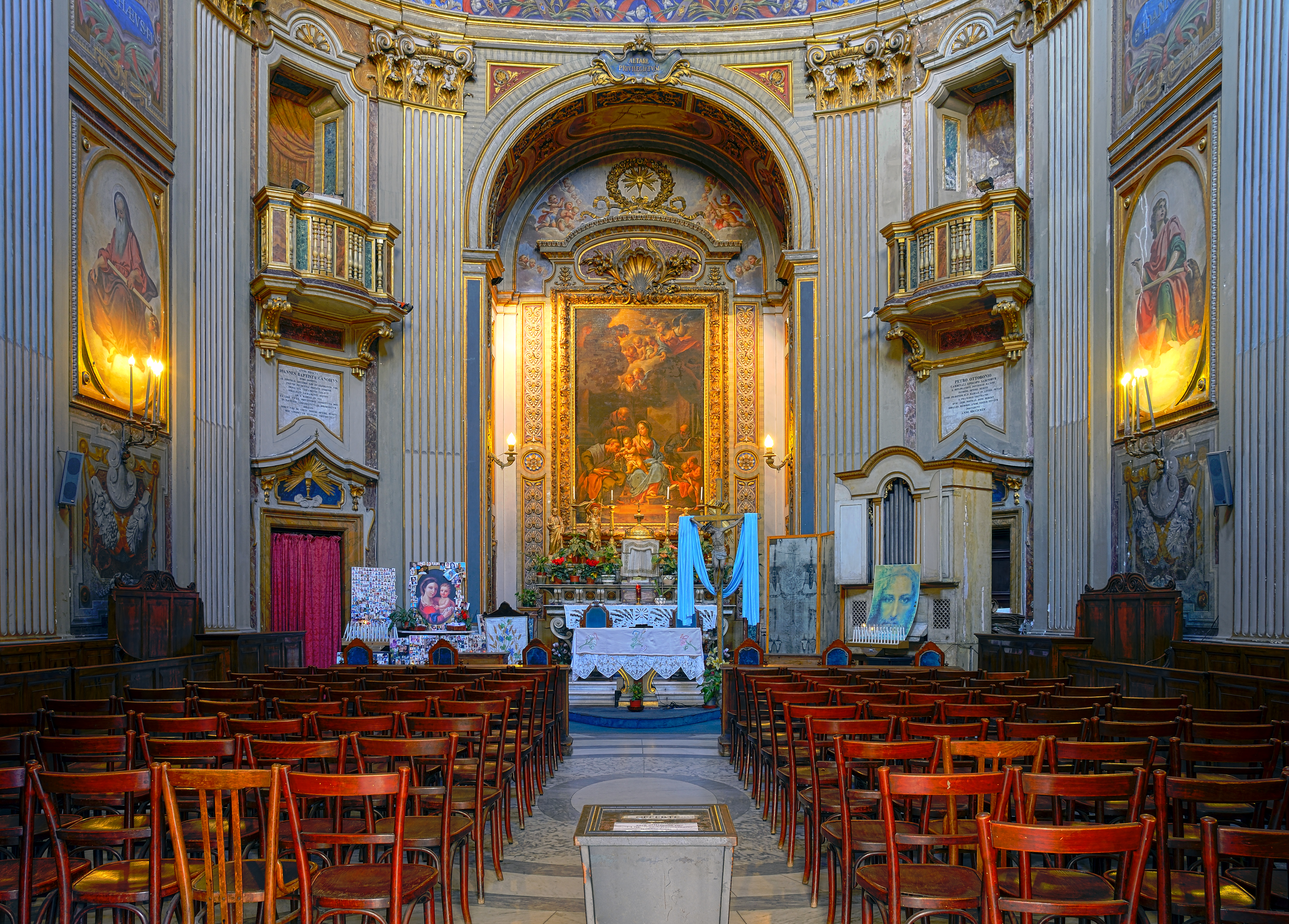 Santissimo Sacramento (Rome) - Interior